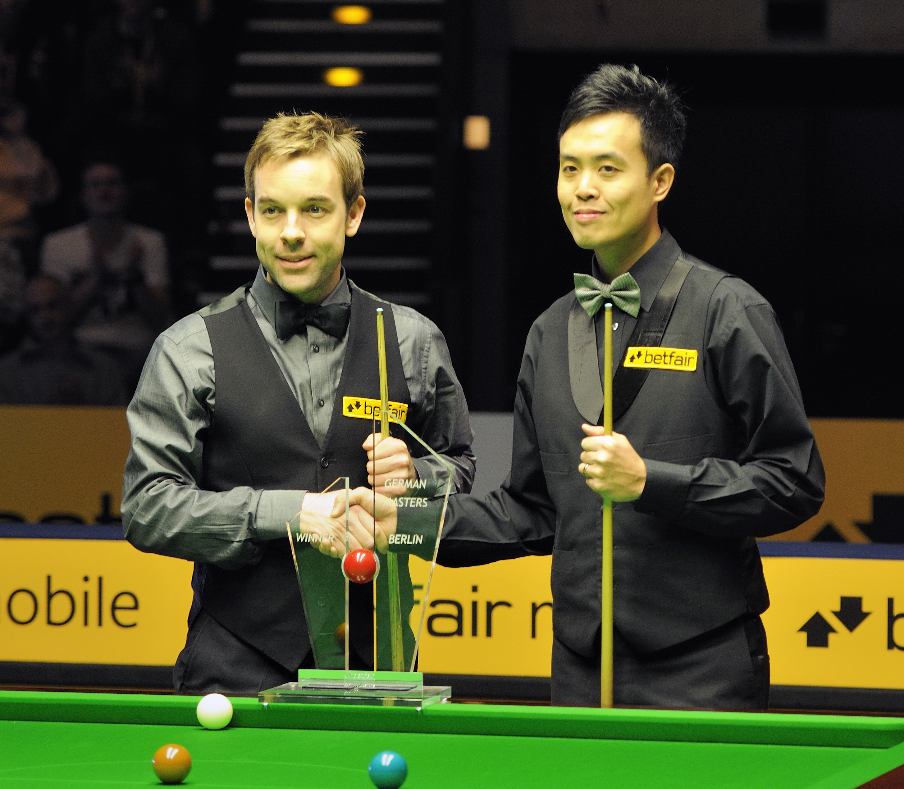 Picture taken in Berlin during the Snooker German Masters in 2013. Ali Carter and Marco Fu.